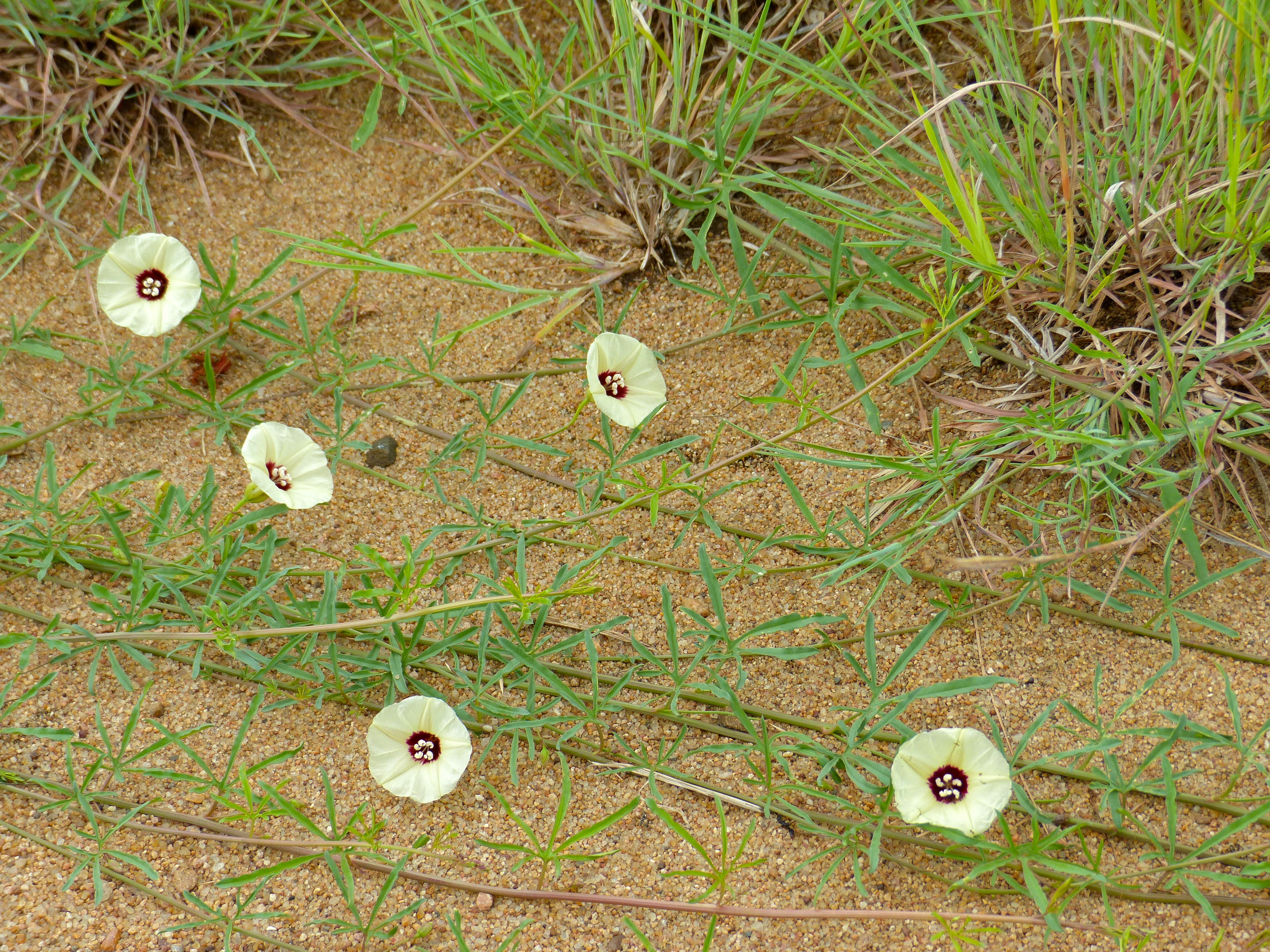 S122 Road North of Lower Sabie, Kruger NP, SOUTH AFRICA